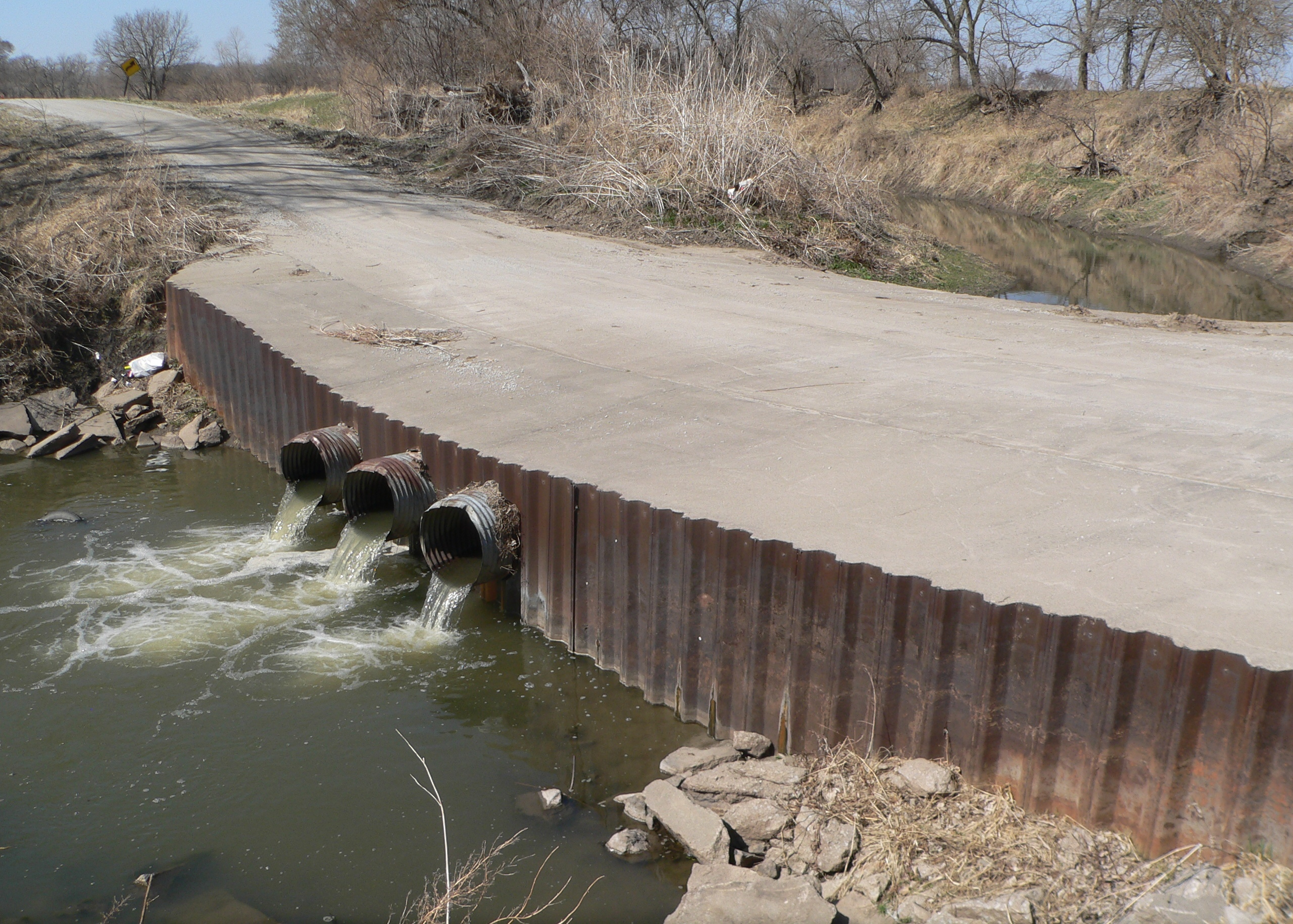 Bridge carrying county road H across Little Nemaha River northwest of Dunbar in rural Otoe County, Nebraska: downstream (south) side.